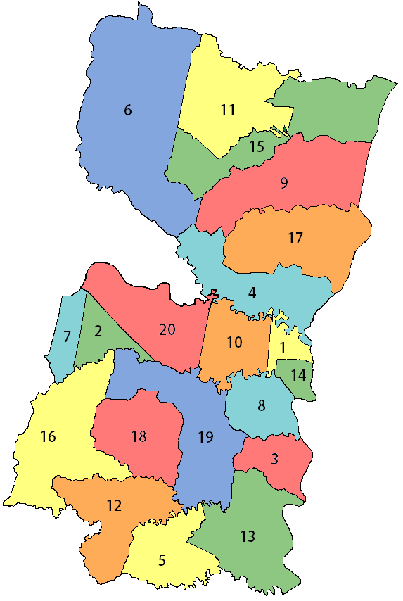 Map of Alto Paraná with their twenty districts.